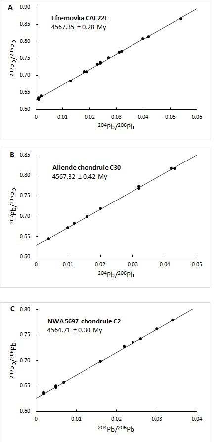 Pb-Pb isochrons for materials of the some of the oldest material in the solar system from three meteorites (Connelly et al., 2012). (A) Efremovka meteorite CAI 22E (4567.35 ± 0.28 My), (B) Allende chondrule C30 (4567.32 ± 0.42 My), and (C) NWA 5679 chondrule C2 (4564.71 ± 0.30 My).